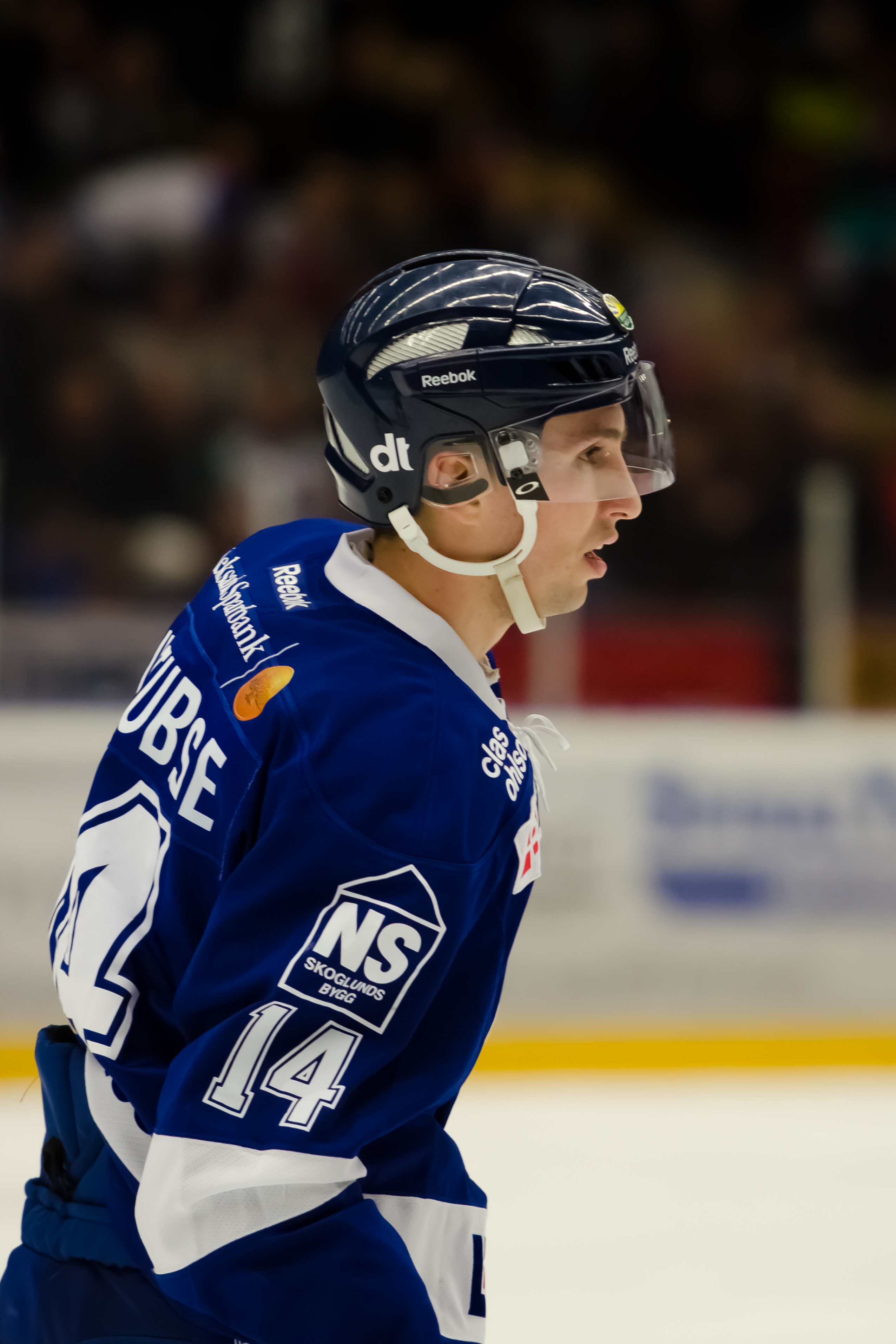 Mark Hurtubise playing for Leksands IF in Hockeyallsvenskan (Swedish second league) against Mora IK 2012-12-29.